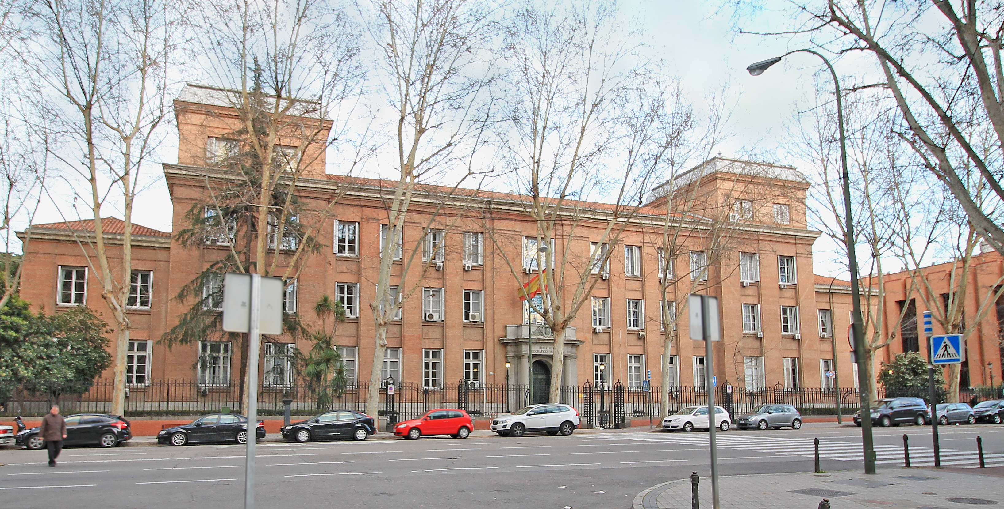 Façade of the headquarters of the National Geographic Institute of Spain, in Madrid.